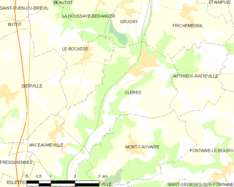 Map of French municipality Clères